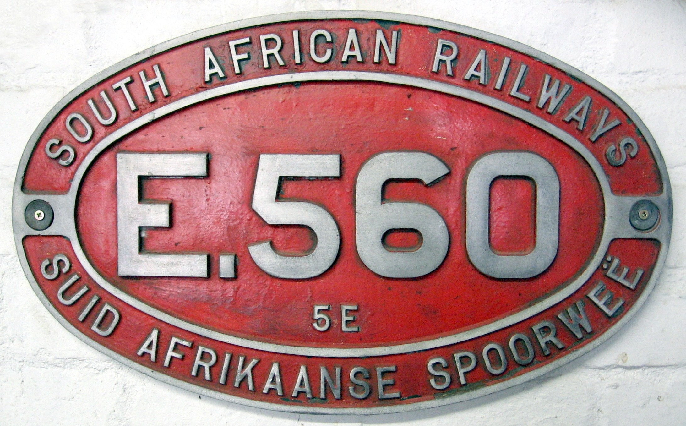 SAR Class 5E, Series 3 no. E560 number plate